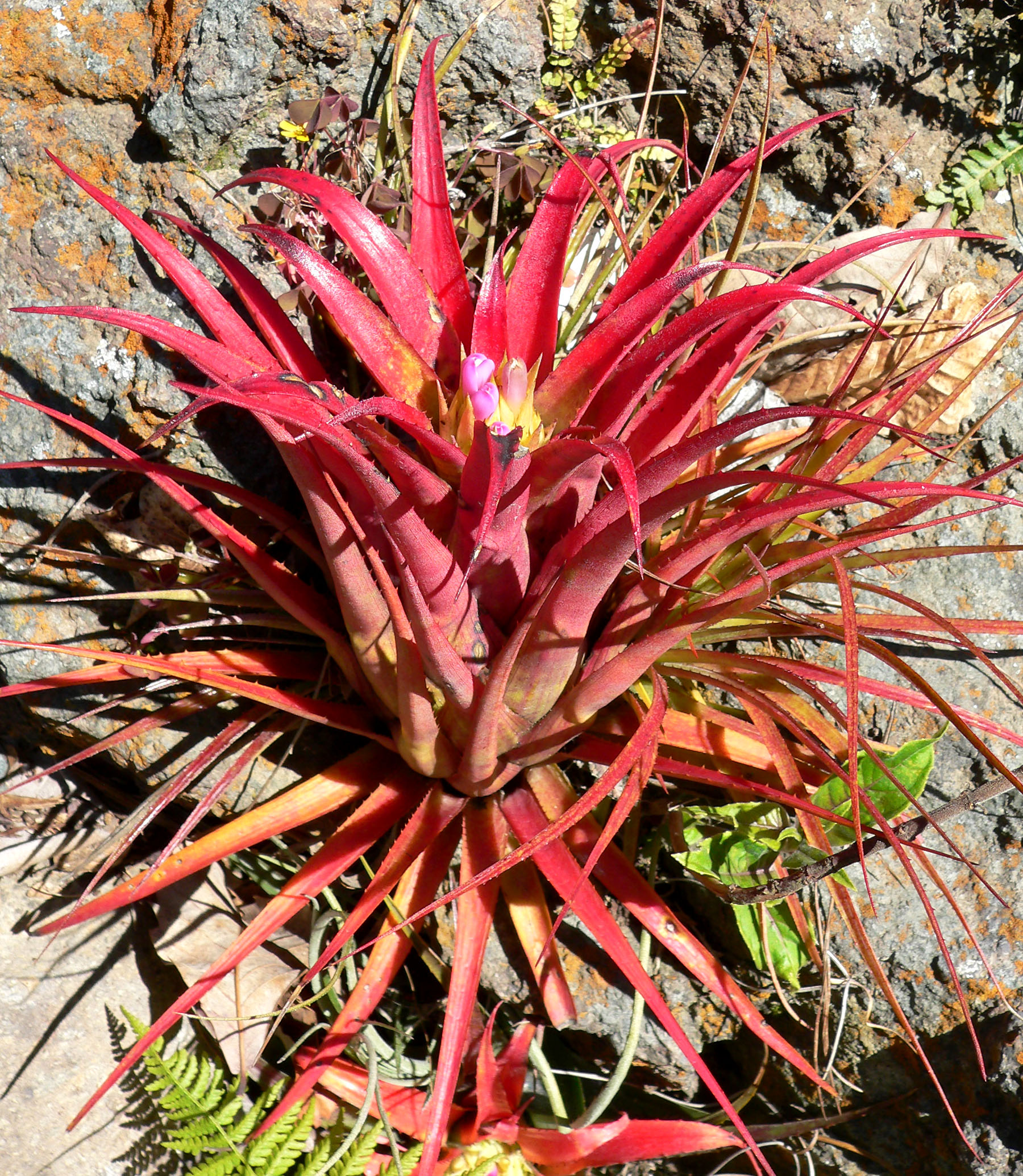 Aechmea recurvata var. ortgiesii at the University of California Botanical Garden, Berkeley, California